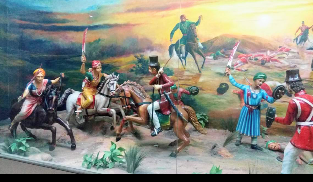 Portrait in Jhansi Museum